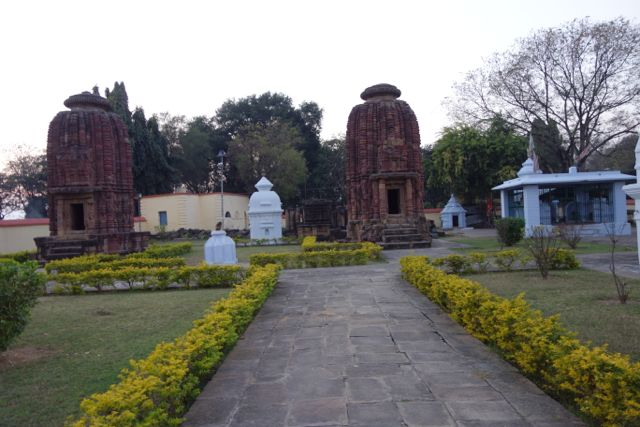 Ramnath Temple - Boudh, Orissa, India